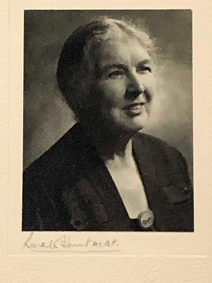 This is a photograph of Louise Doris Adams when she was president of the Mathematical Association.